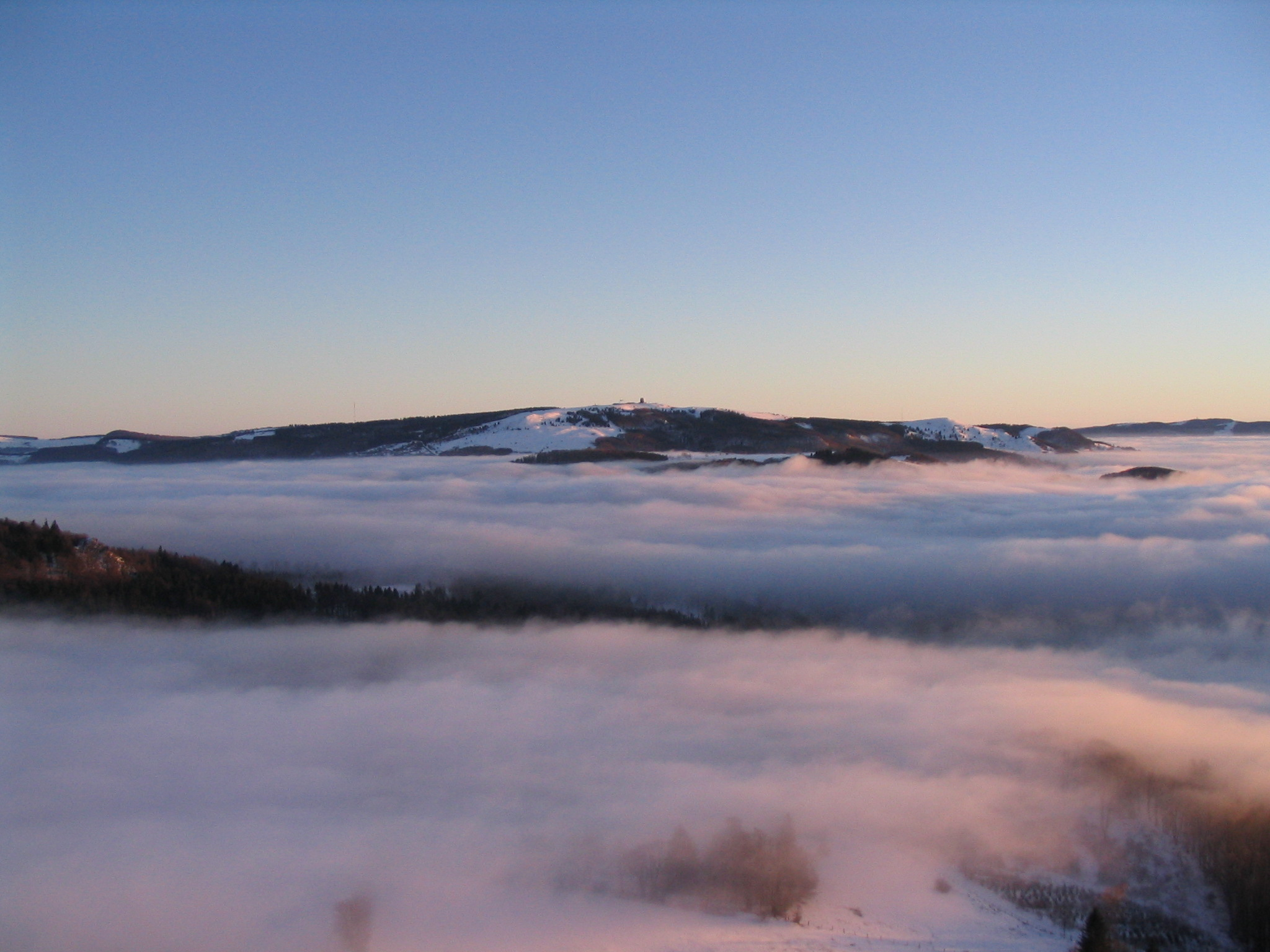 View from the Milseburg (835 m) southwards to the Wasserkuppe (950 m), highest mountain of Hesse and the Rhön Mountains during inversion.